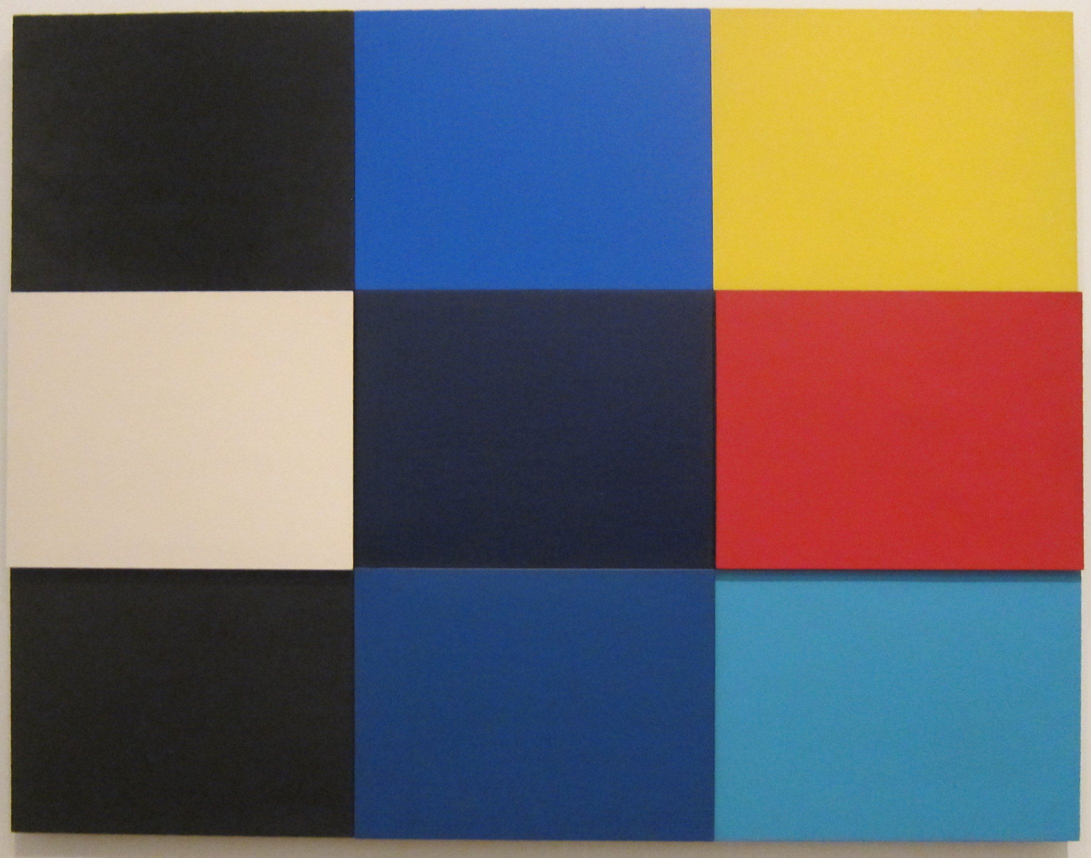 Méditerannée, oil paint on wood by Ellsworth Kelly, 1952, Tate Modern